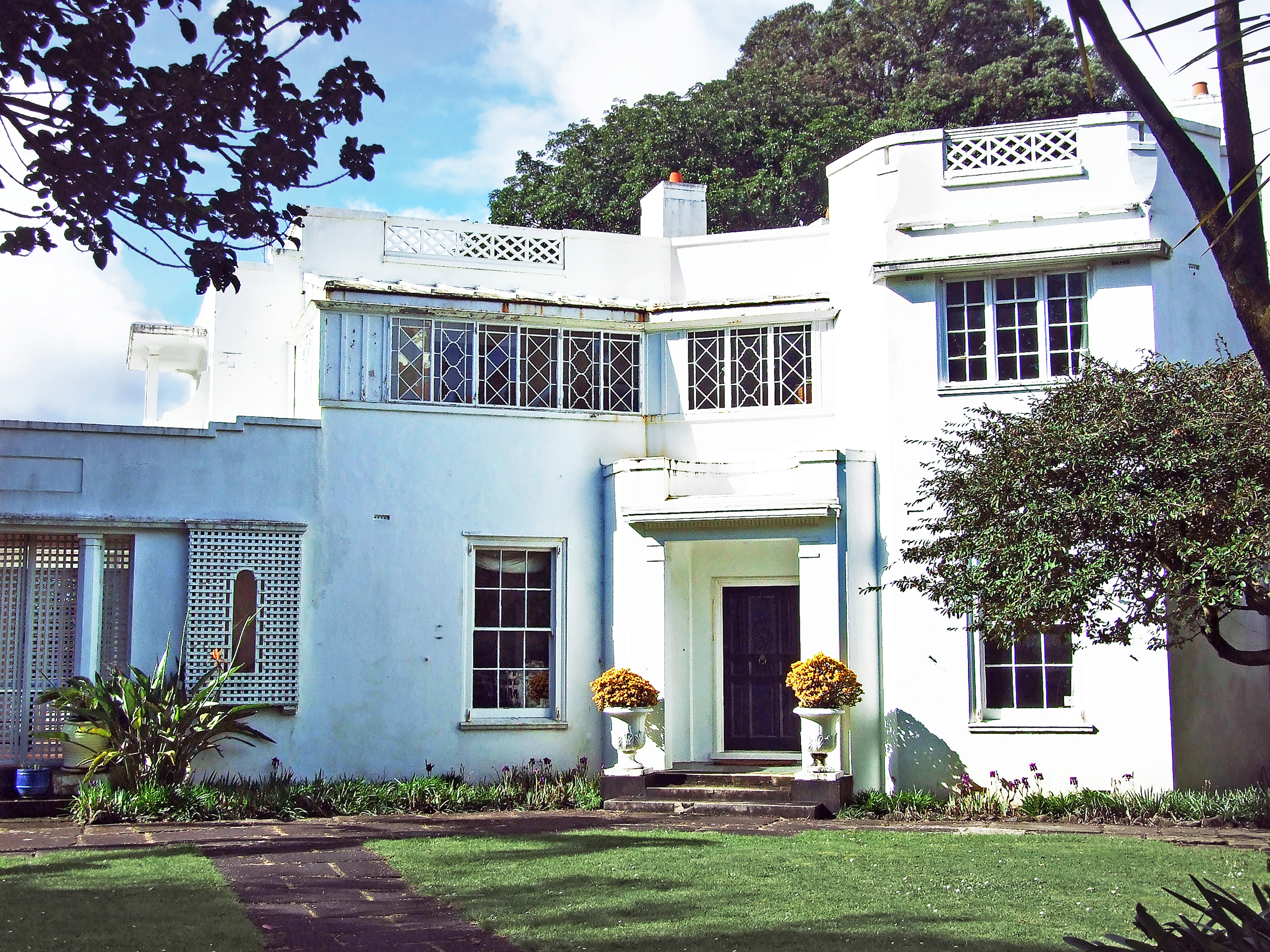 Bill Gummer's own house called Stoneways, in Mountain Rd Remuera Auckland. NZ. "...examples include: Bill Gummer’s Tauroa (1916) and Arden (1926) at Havelock North, 2011 photos:Tauroa 1916 Arden 1926: and his own Stoneways (1927) Mountain Rd Auckland ----- above and following. These were not modern in construction technology, but heading that way aesthetically. wikimapia NZHPT full on Stoneways: Wikipedia link